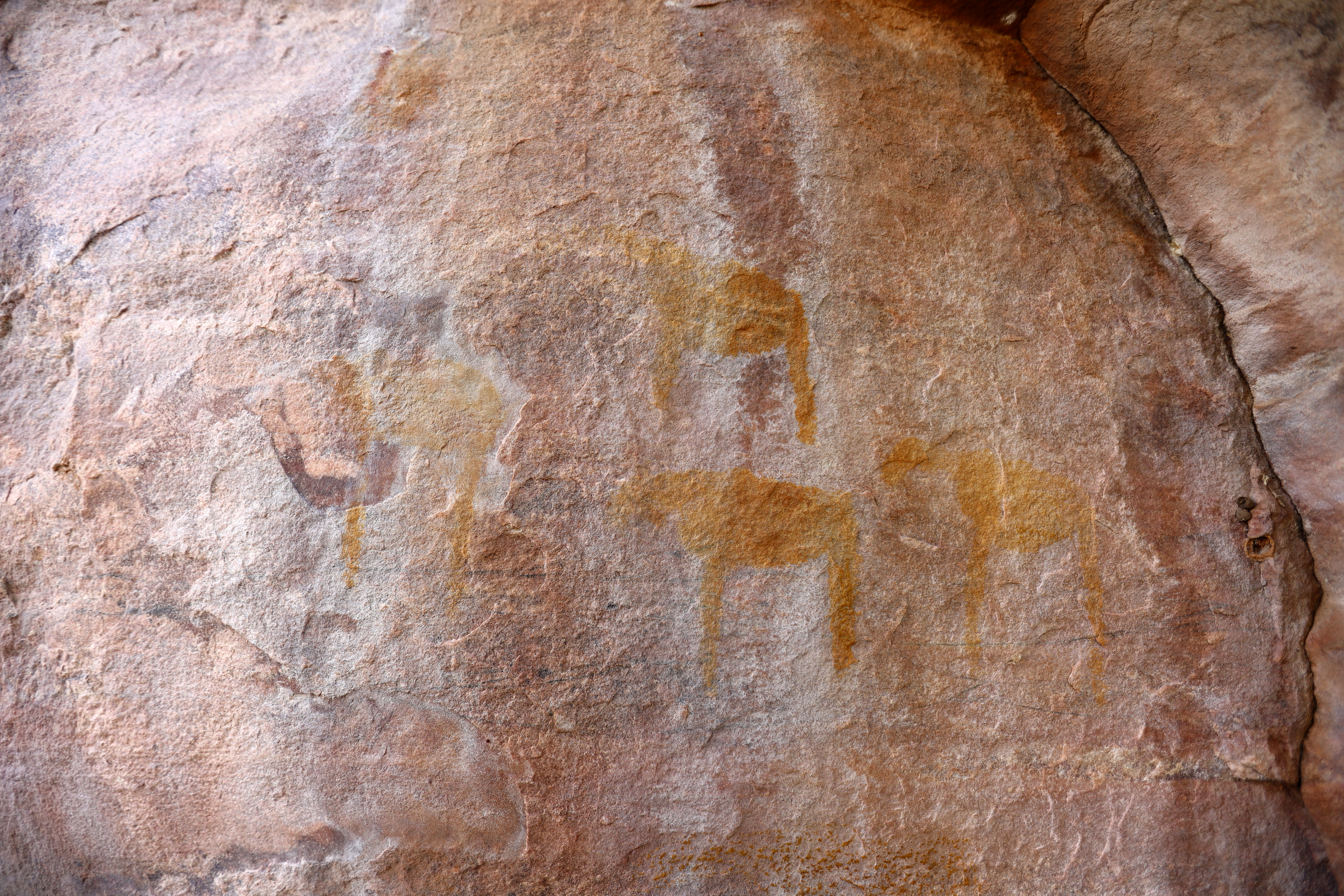 The giraffe is the animal at the top. The other three animals are kudus